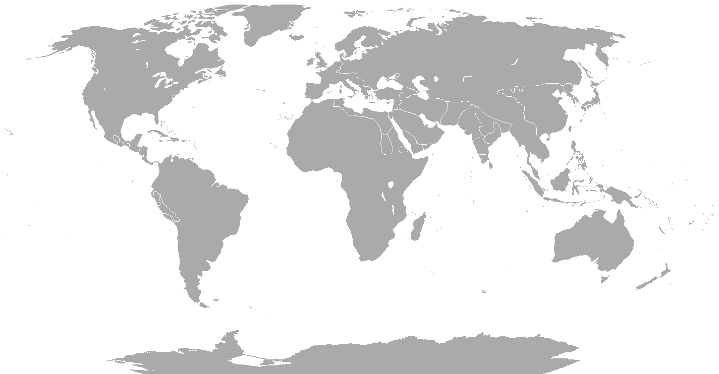 Map of the world for 1CE, adapted from varying sources (books, wiki-articles, etc.)